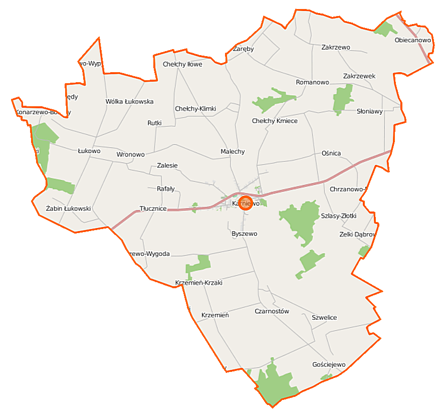 Map of Gmina Karniewo, Poland This map of Karniewo (gmina) was created from OpenStreetMap project data, collected by the community. This map may be incomplete, and may contain errors. Don't rely solely on it for navigation. Border coordinates52.903120.8555←↕→21.099952.7643